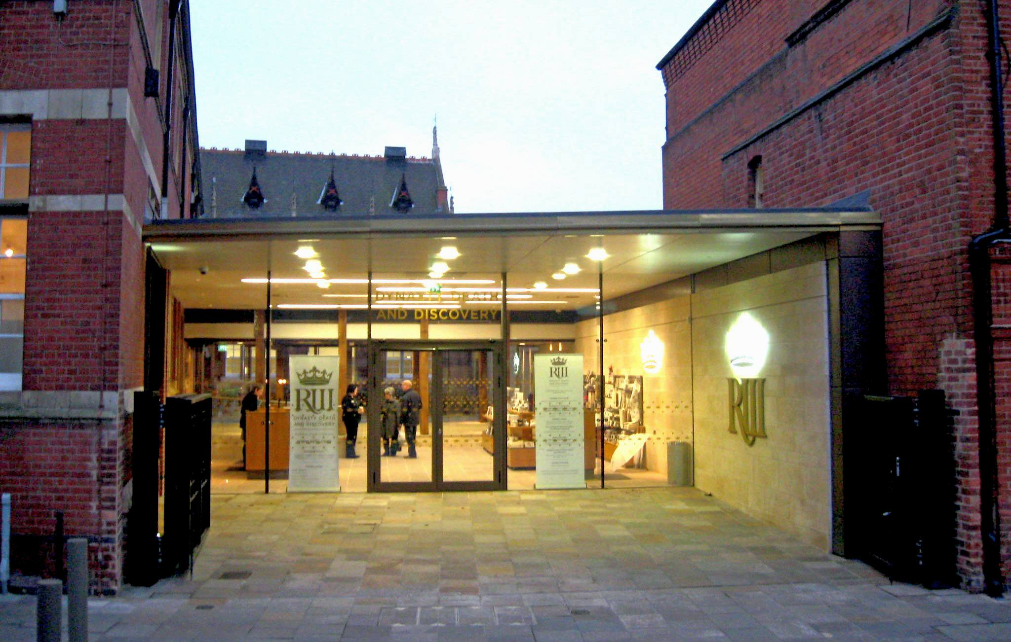 Dynasty, Death and Discovery, Entrance to Leicester's Richard III museum